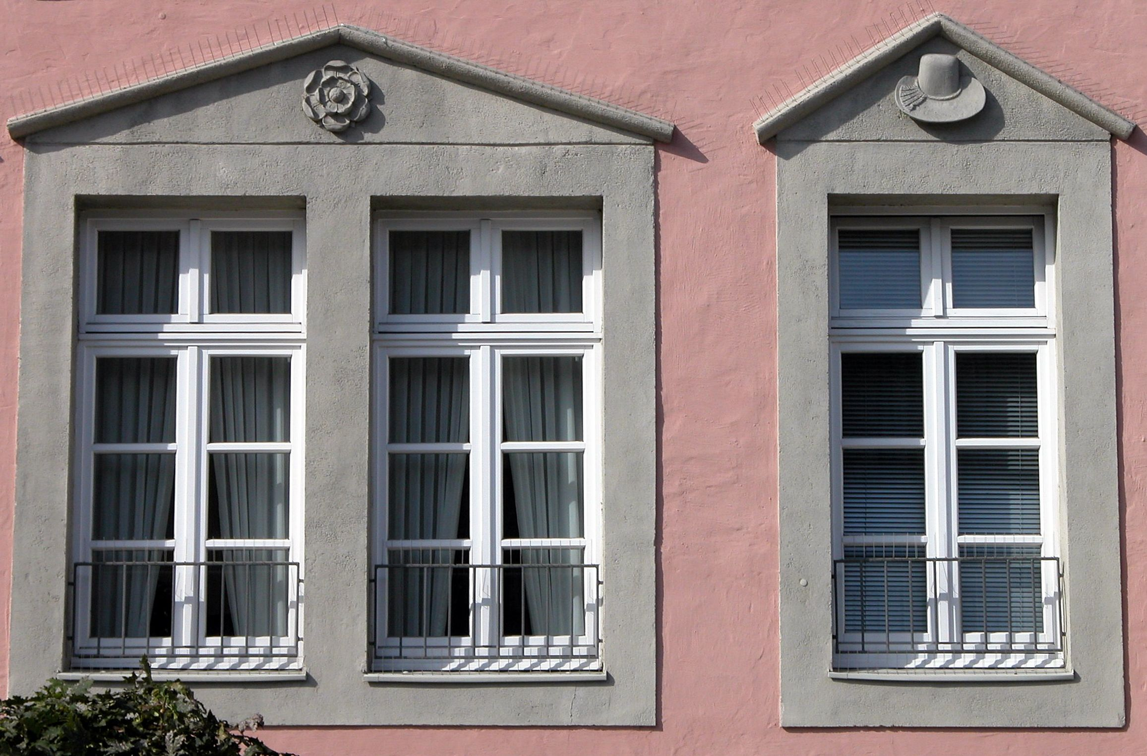 Braunschweig, Germany: Stechinelli-Haus, window detail.